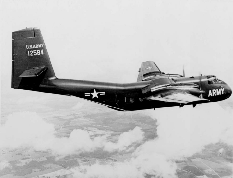 A U.S. Army De Havilland Canada DHC-4 Caribou (s/n 61-2594) in flight. This aircraft was later sold to Spain. The DHC-4 was first designated AC-1-DH, and was redesignated CV-2A in 1962, and finally C-7A when transferred to the USAF in 1966.